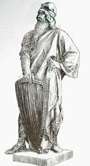 Wilfred the Hairy statue. Passeig de Sant Joan, Barcelona (Catalonia). Demolished in 1936